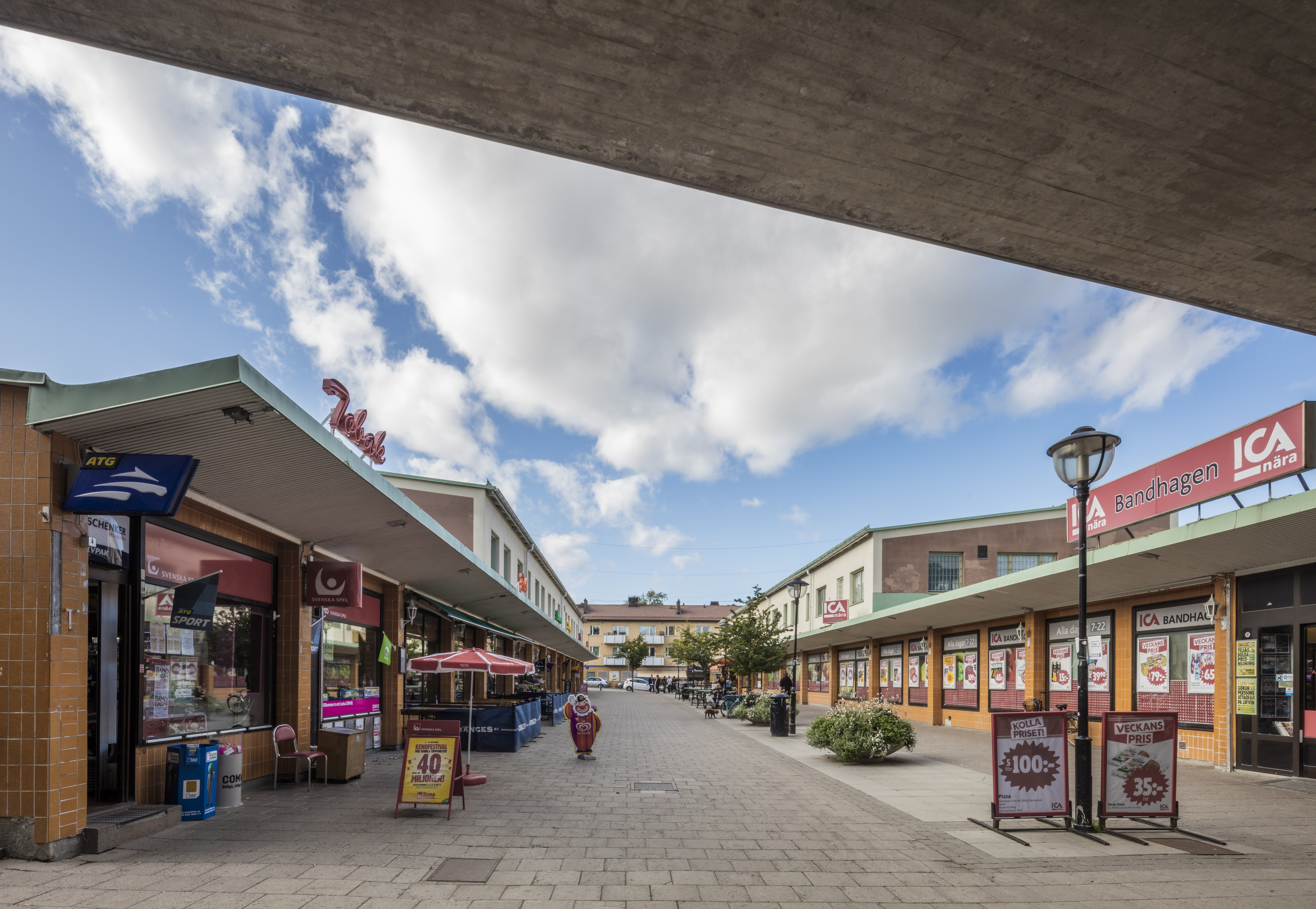 FOTOGRAFIBandhagsplan, Bandhagen centrum från under tunnelbanebron mot väst. -FOTOGRAF: Ek, Mattias.BILDNUMMER:Stadsmuseet i Stockholm